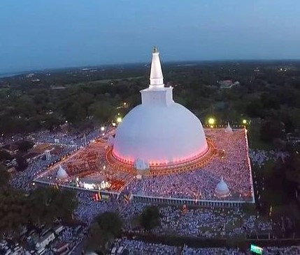 Ruwanwelisaya from sky at a offering ceremony